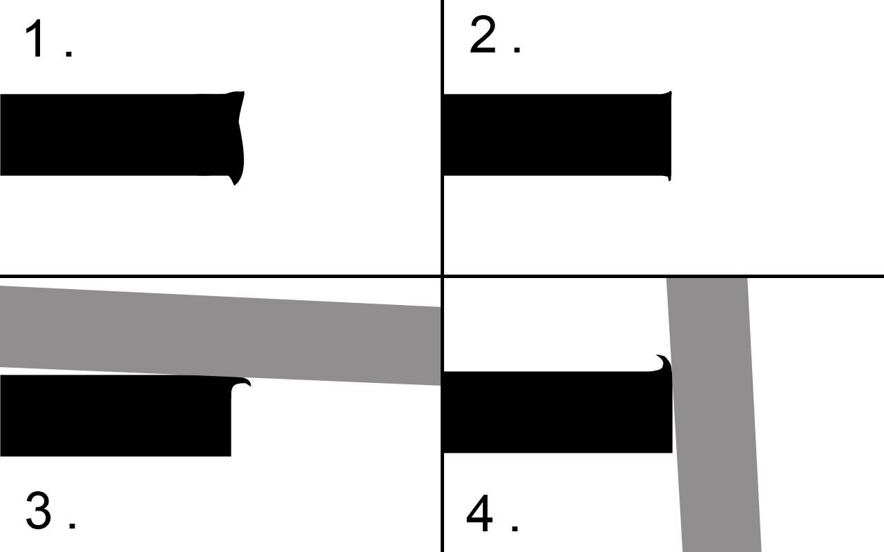 Sharpening of card scraper 1. scraper has an irregular shape of edges 2. jointing of surface and edge with soft sharpening stone 3. straightening and enlargement of burr with burnishing rod 4. turning of the buzz